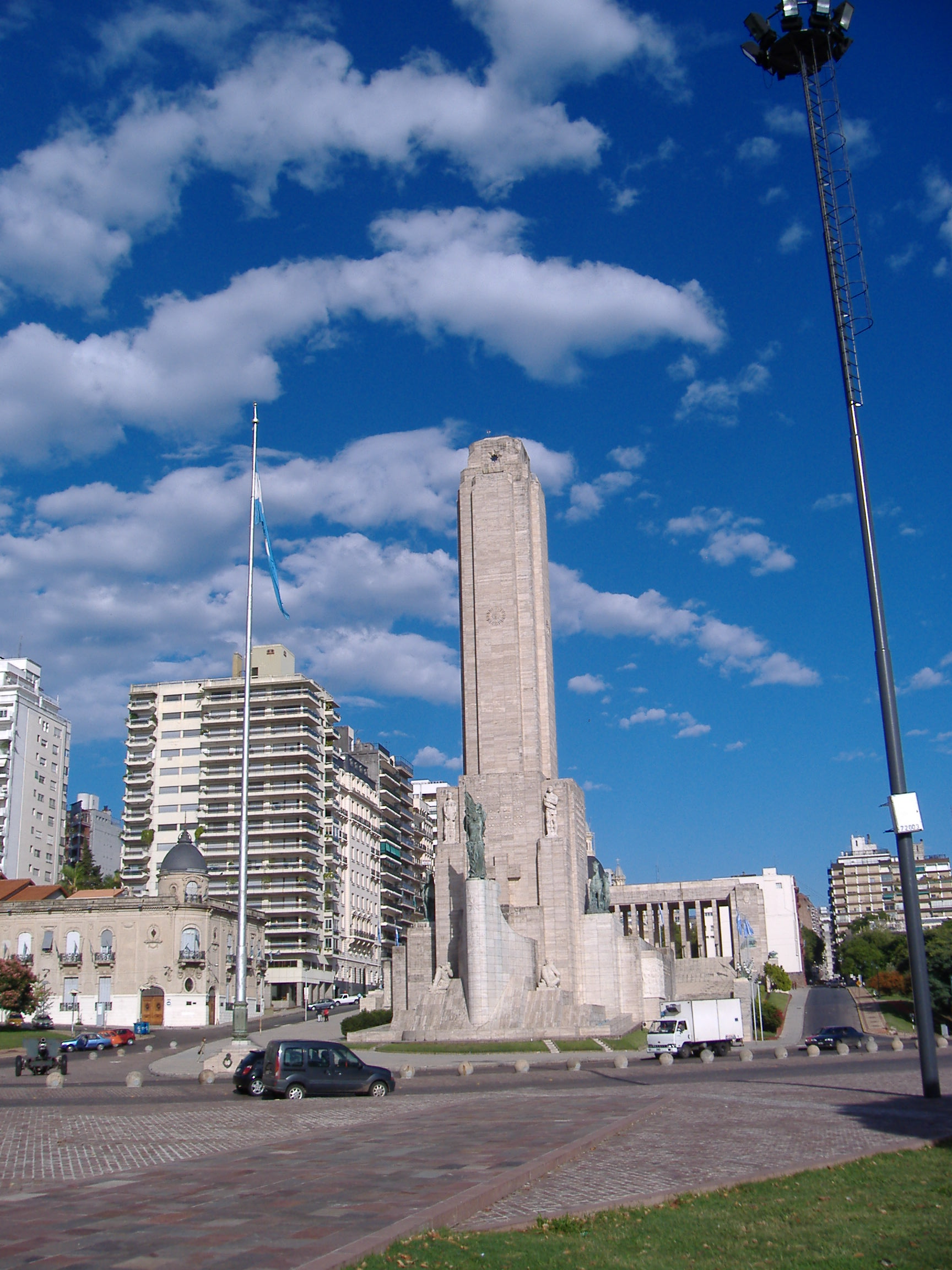 The National Flag Memorial (Monumento Nacional a la Bandera) in Rosario, Argentina, near the banks of the Paraná River. The picture was taken by me, Pablo D. Flores, on 1 March 2006.